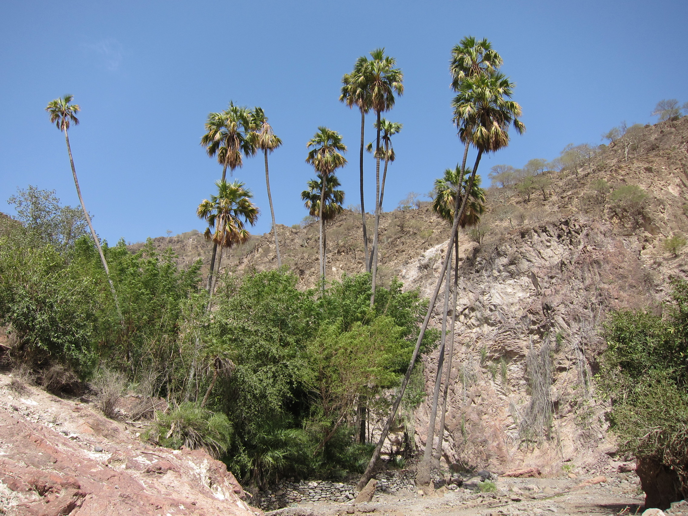 Livistona carinensis (Chiov.) J.Dransf. & N.W.Uhl, Goda Mountains, Djibouti